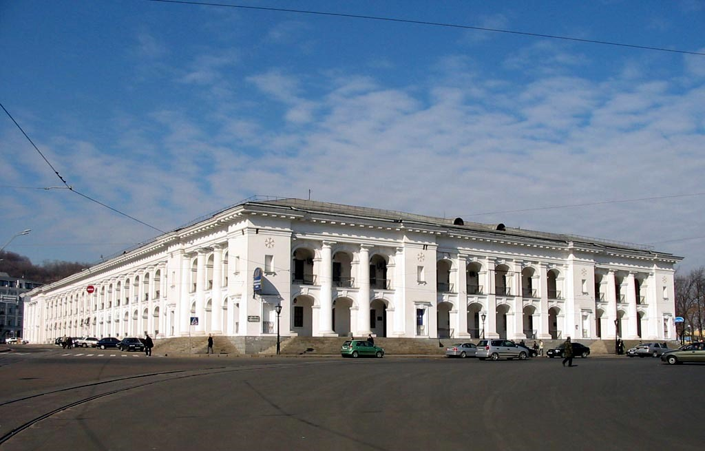 View of the Hostynyi Dvir on the Kontraktova Square in the Podil neighbourhood in Kiev.